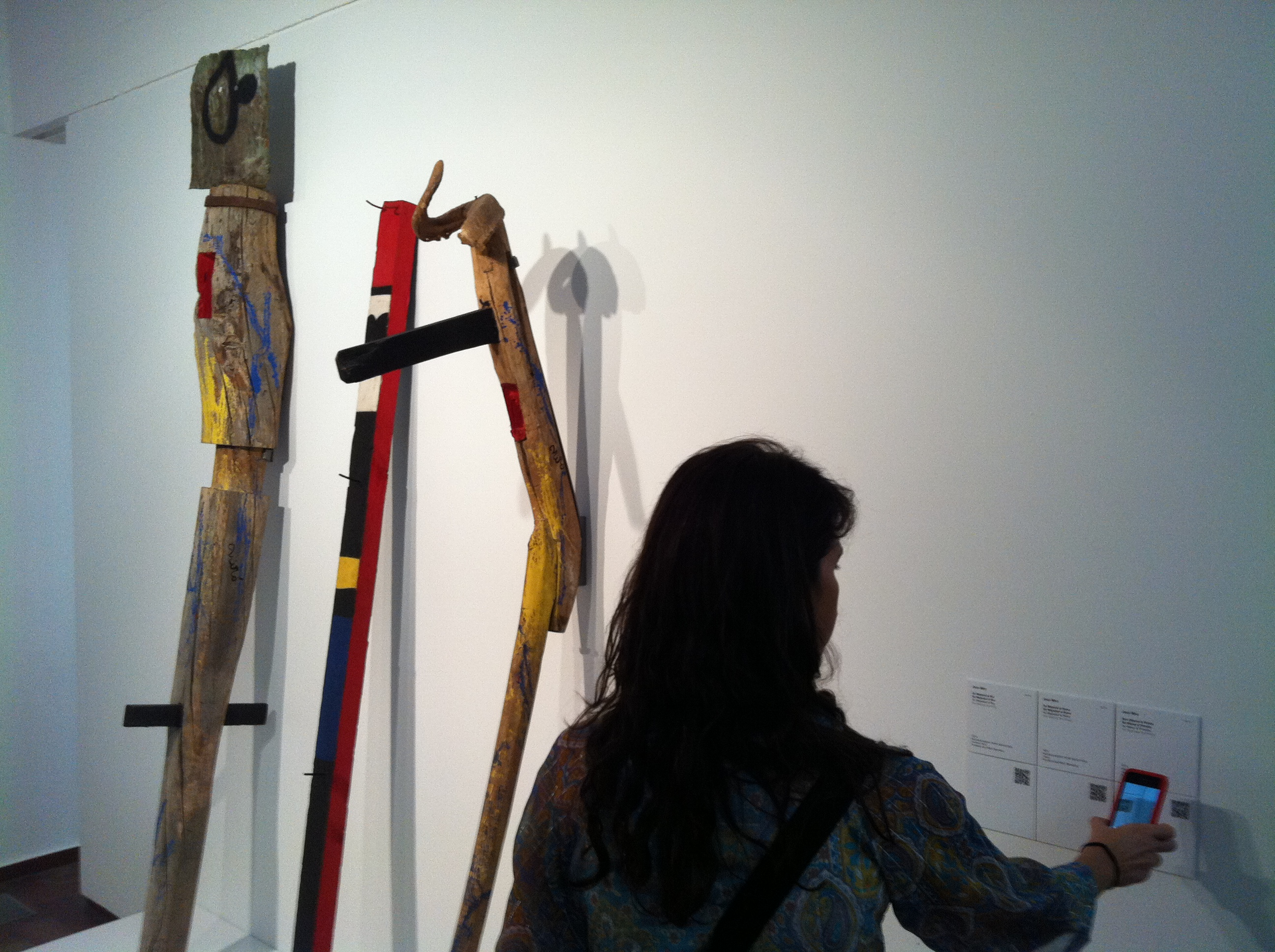 Miró sculptures at the Miro exhibition being read using QRpedia codes